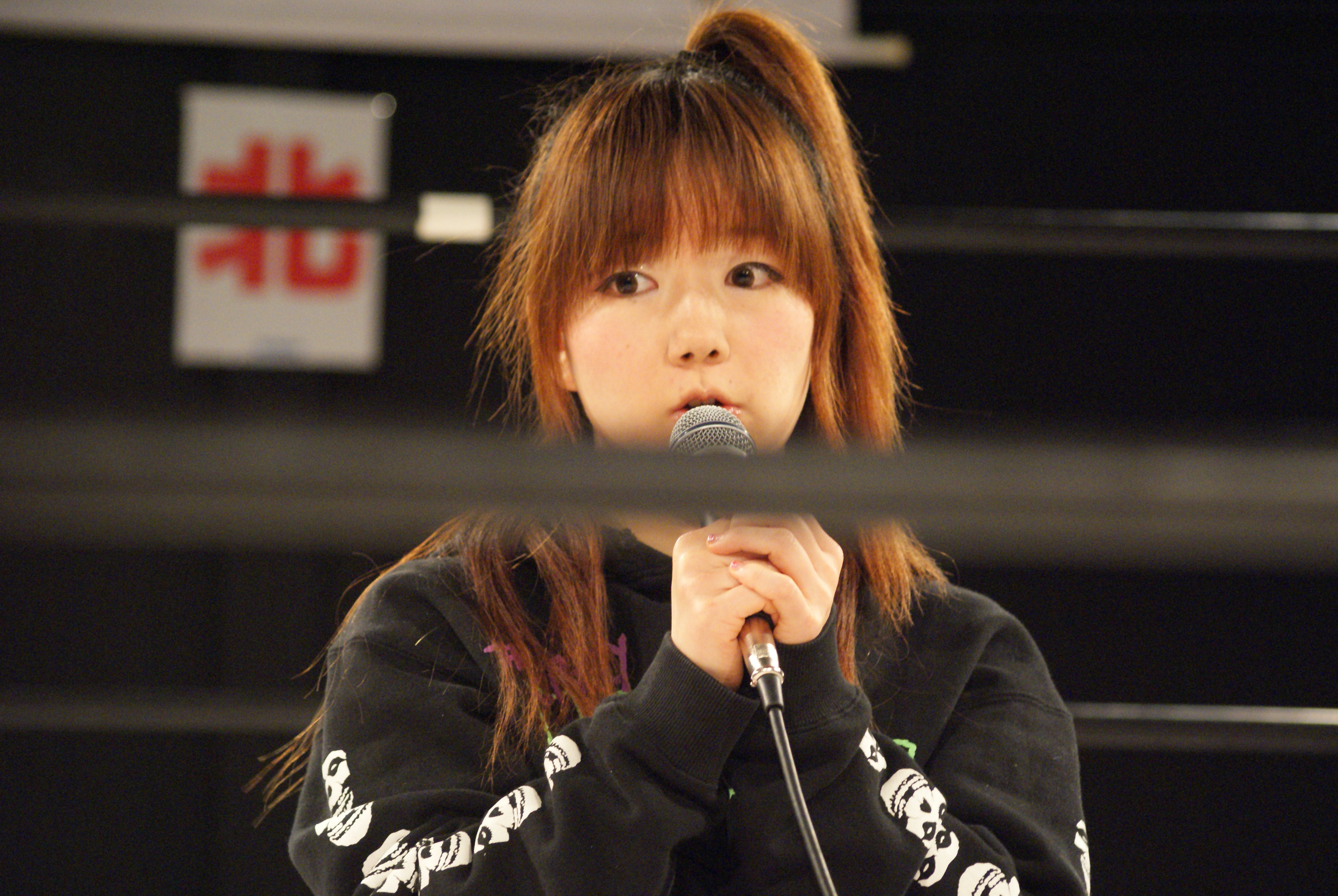 Miyako Matsumoto (松本都) on January 29, 2012